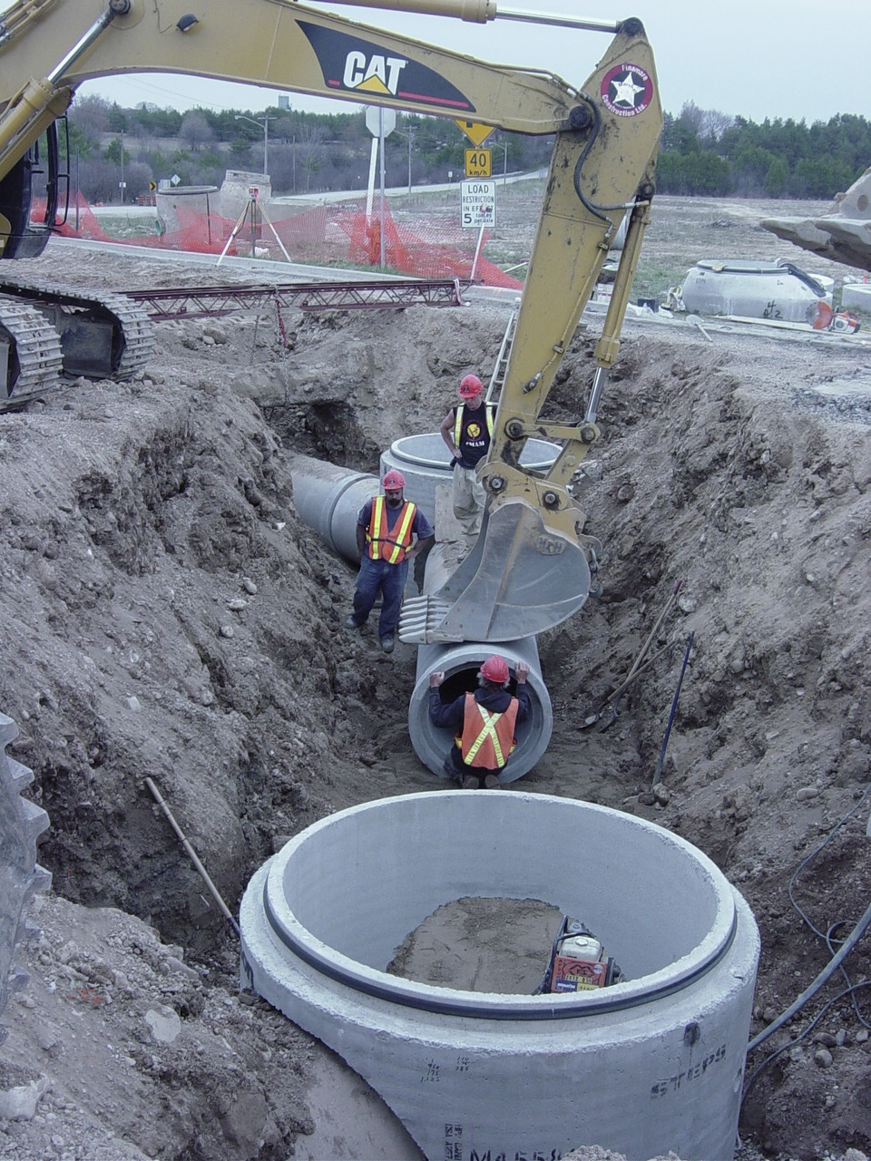 Typical concrete storm sewer installation in Ontario, Canada.